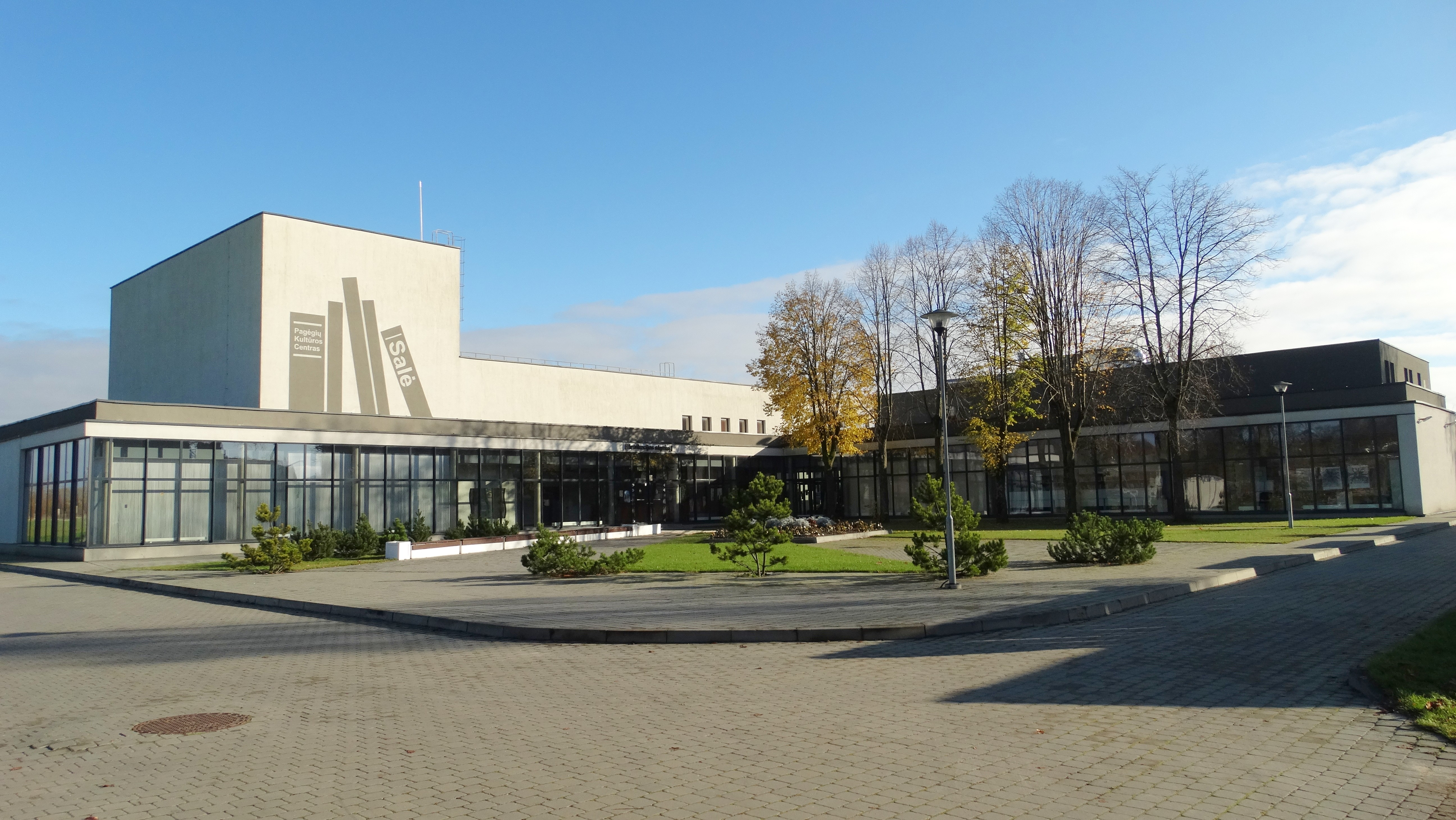 Centre of culture, Pagėgiai, Lithuania